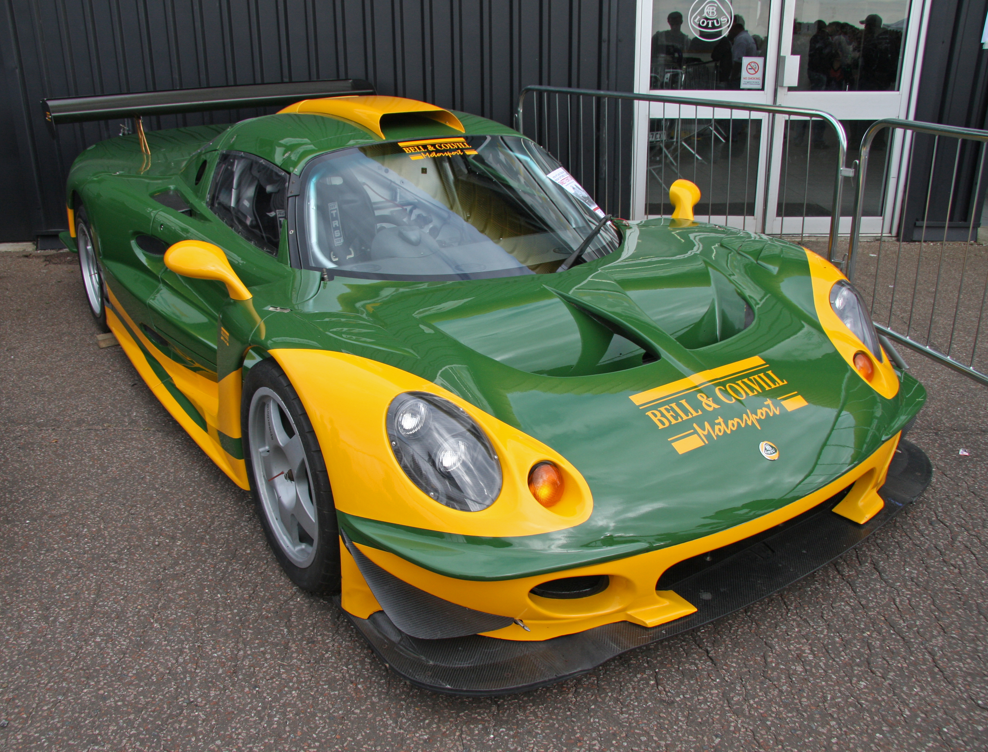 A Lotus Elise GT1 at the Lotus 60th Celebration